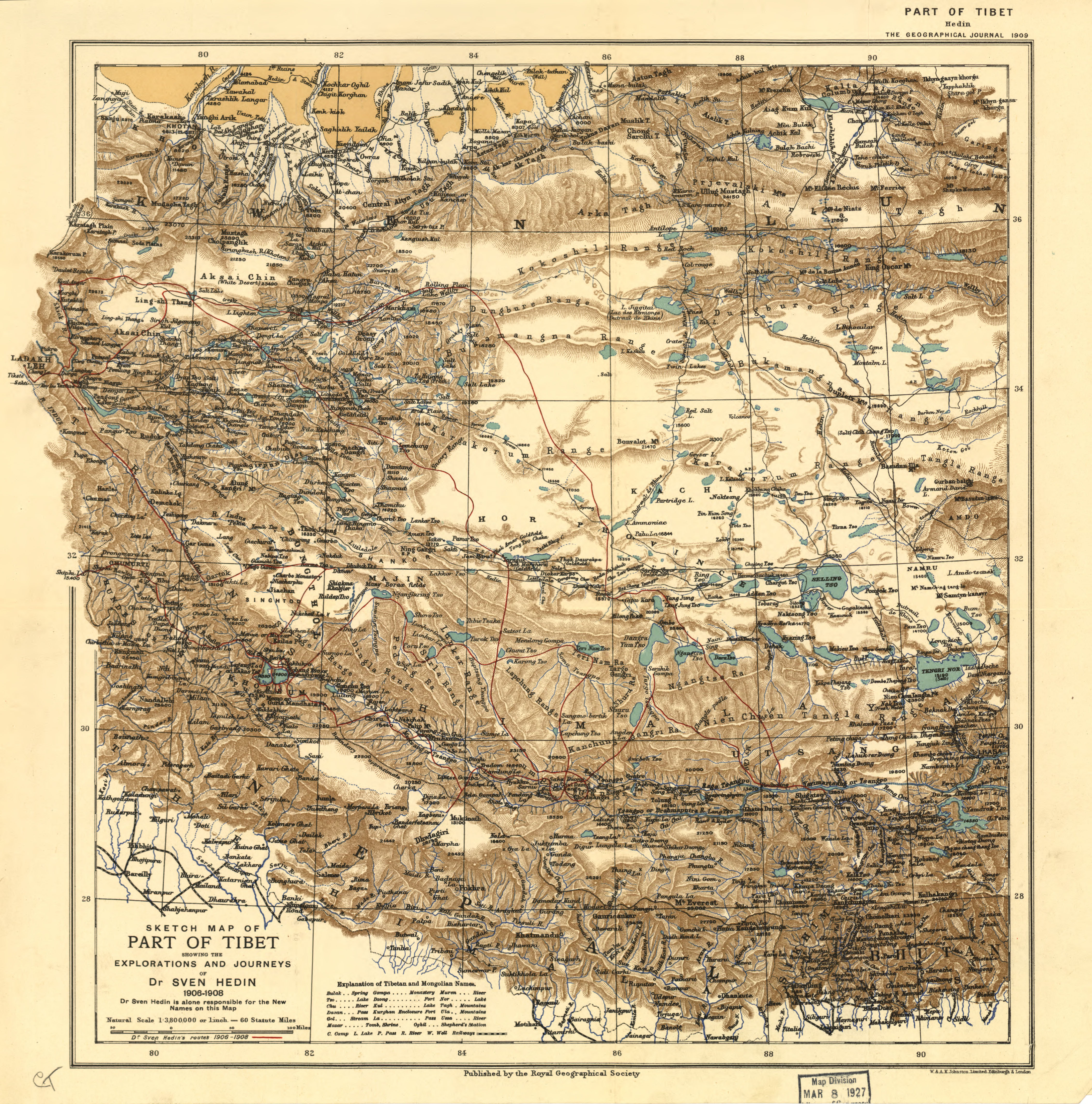 Sketch map of part of Tibet showing the explorations and journeys of Dr. Sven Hedin, 1906-1908. Published by the Royal Geographical Society. Scale 1:3,800,000.